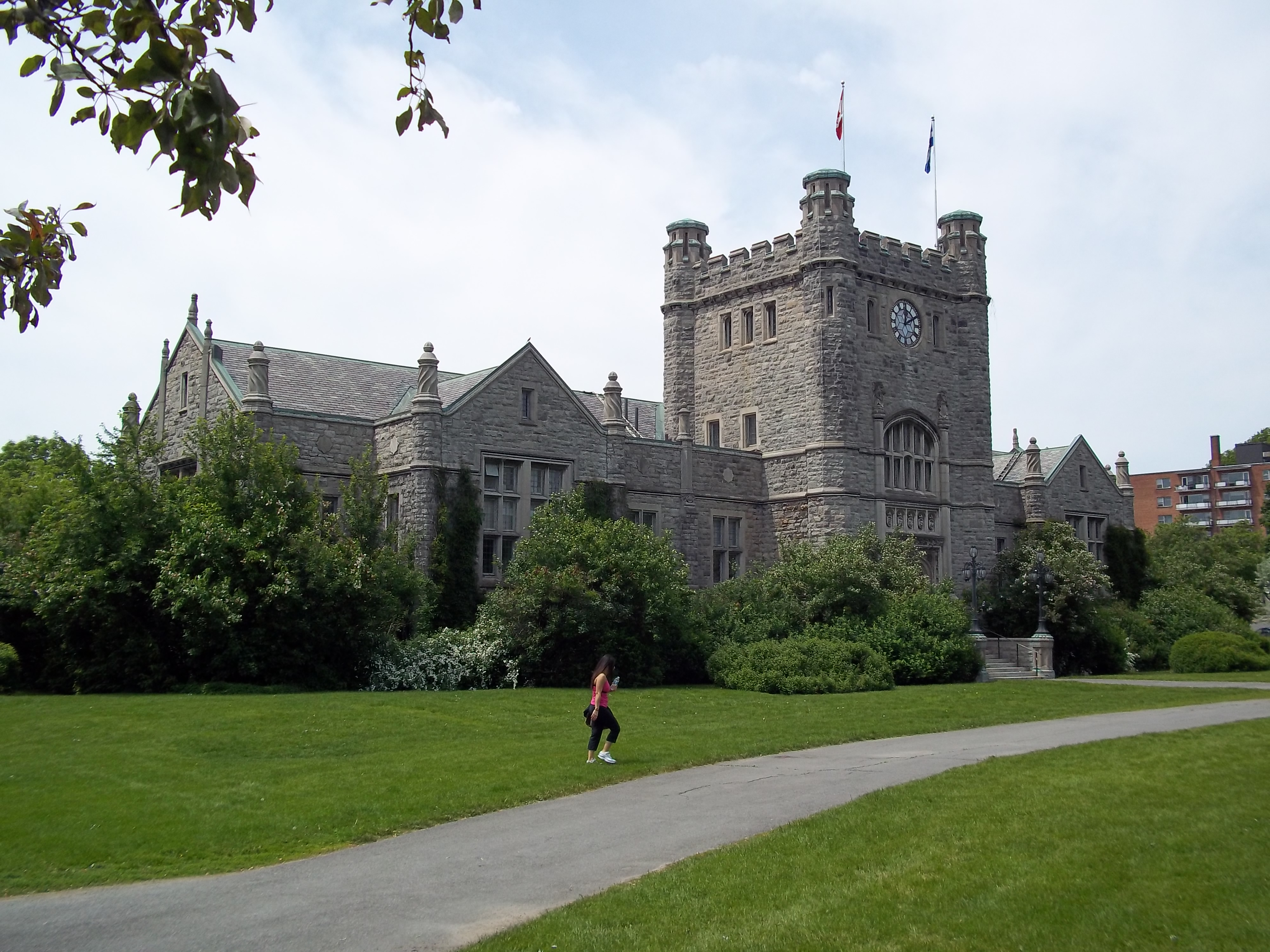 Westmount City Hall